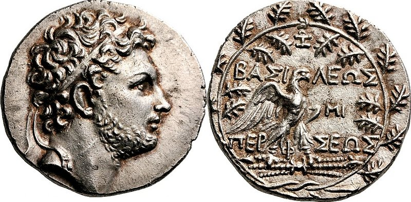 Kings of Macedon. Perseus. 179-168 BC. AR Tetradrachm (16.95 g h 11), Pella or Amphipolis, under the magistrate Zoilos, c. 178-174. Diademed head of Perseus to right. ΒΑΣΙΛΕΩΣ ΠΕΡΣΕΩΣ Eagle with spread wings standing right on thunderbolt; above, monogram of ΞΩ; to right, ΜΙ; between legs, Φ.